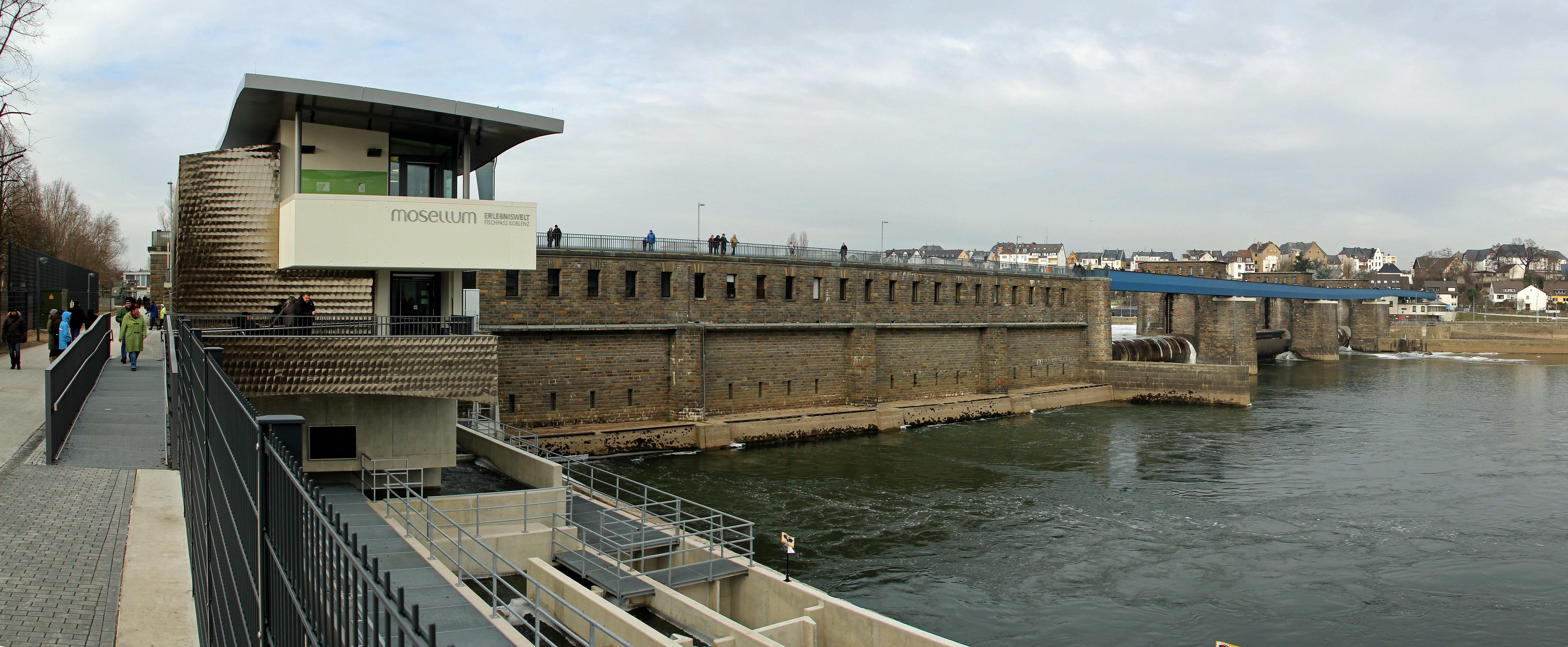 Mosellum at Barrage Koblenz